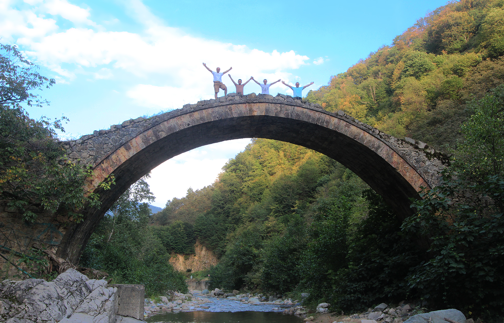 A late evening view of the arc bridge "Kemer köprü" over Yağlıdere Stream. Tuğlacık, Yağlıdere - Giresun, Turkey.